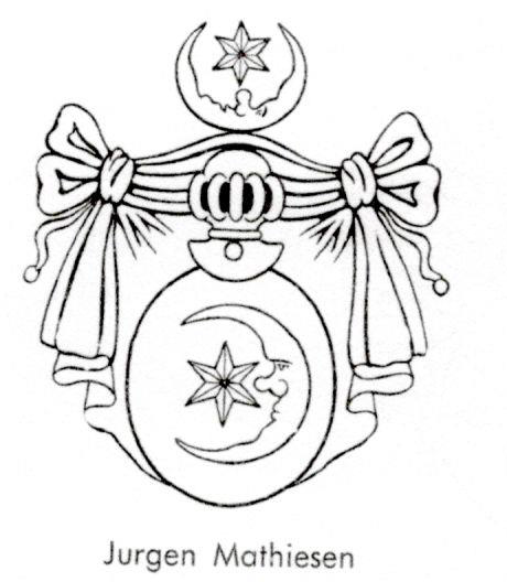 Jurgen Mathiesen, county sheriff of Helgeland, Norway